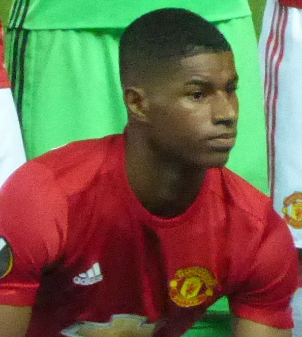 Manchester United v Zorya Luhansk (1-0), Europa League, Old Trafford, Manchester, Greater Manchester, England, September 2016